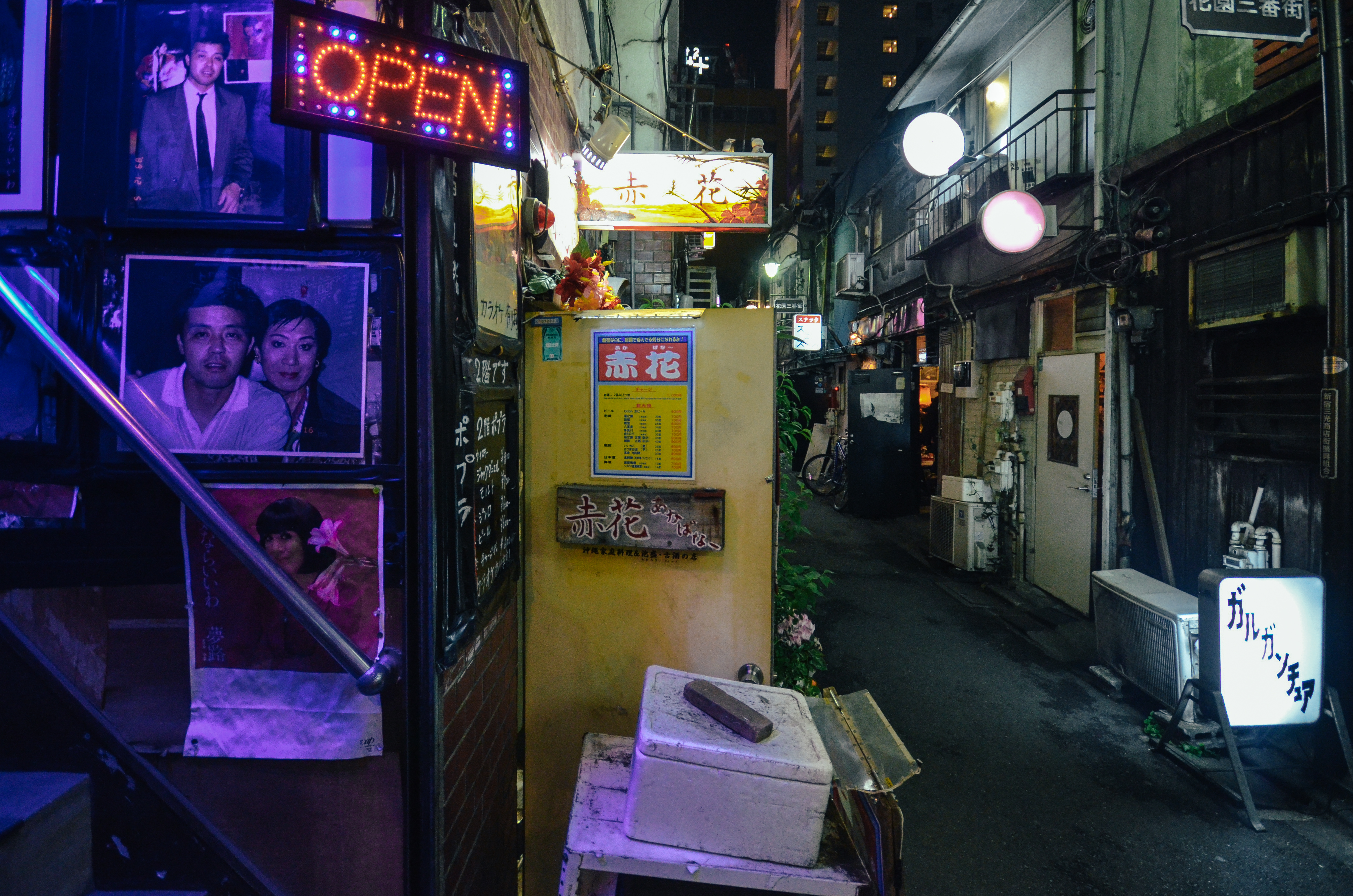 Akarui Hanazono Sanban Street is located in Shinjuku Ward, Tōkyō Metropolis.